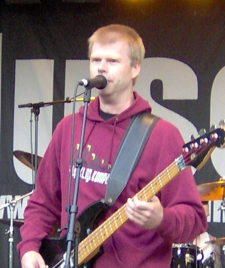 Mart Hällgren, lead singer of the Swedish punk rock band De Lyckliga Kompisarna, live at Huset i Parken, Huddinge.